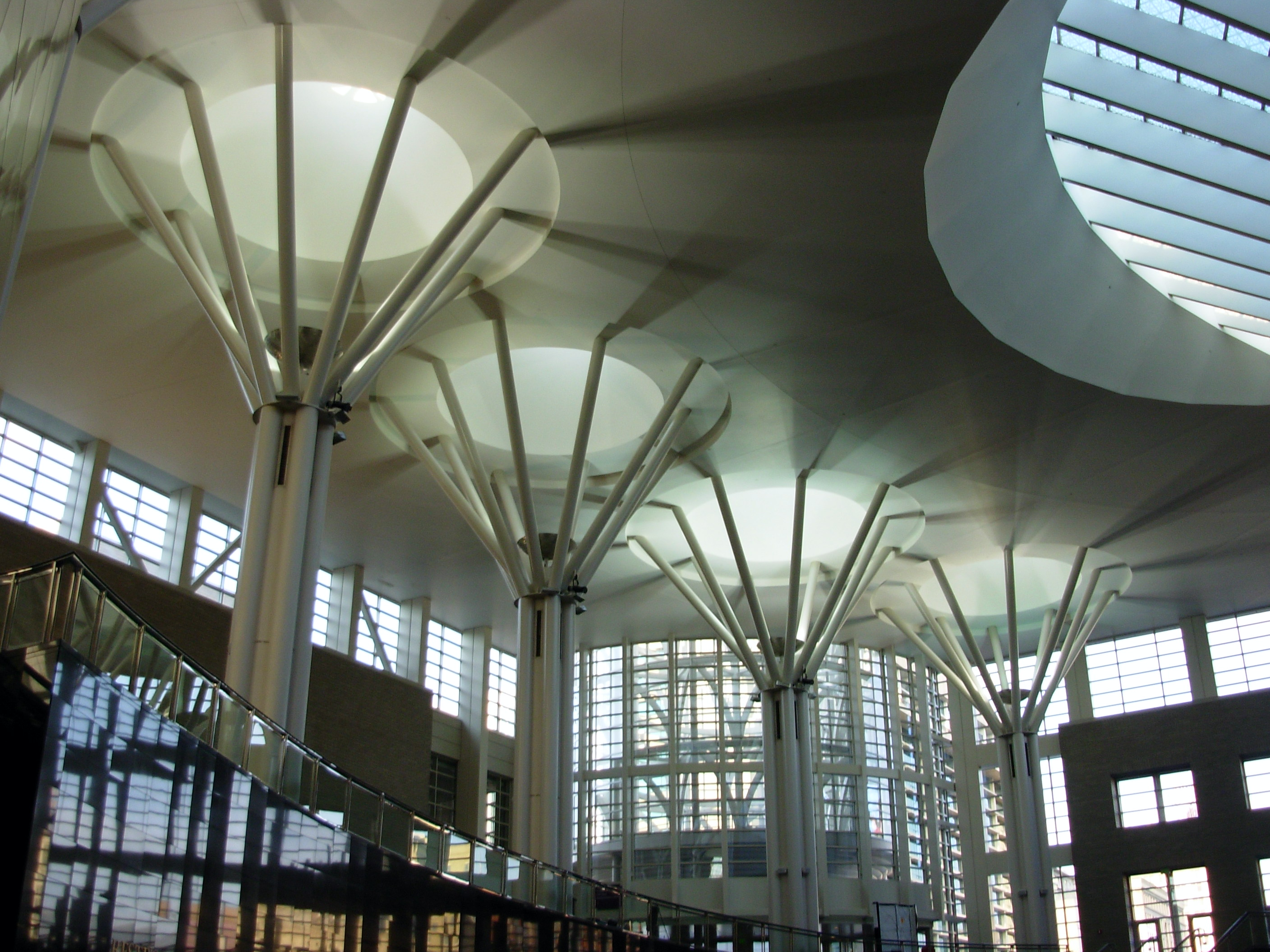 The interior of the east entrance of the modern Calvin L. Rampton Salt Palace Convention Center